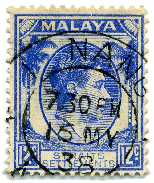 Scan of Straits Settlements 12c stamp of 1938